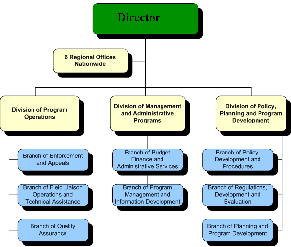 Office of Federal Contract Compliance Programs (OFCCP) organization chart.